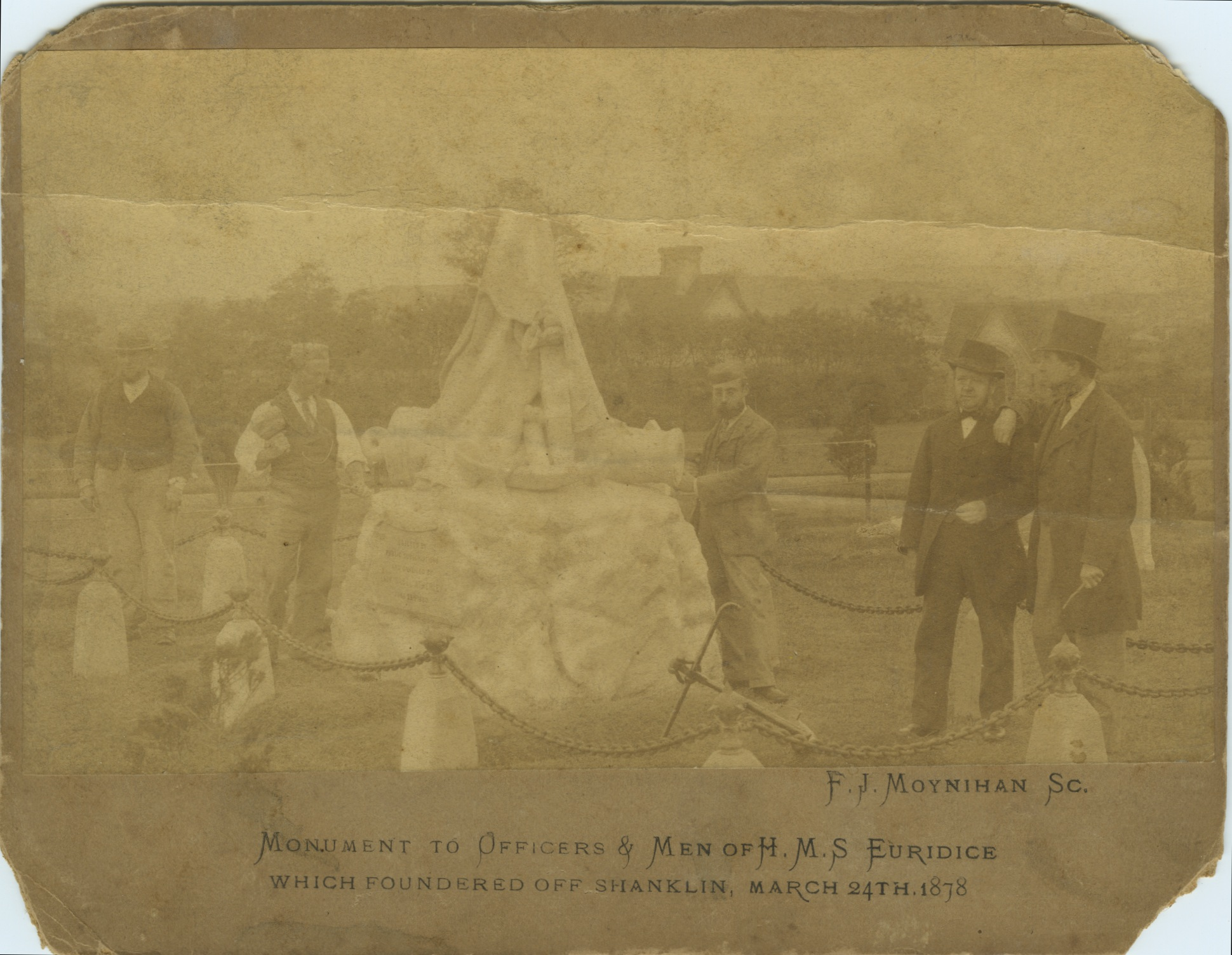 The HMS Eurydice Memorial The energy of these committees was the means of raising a very large sum, and in consequence Mr. F.J. Moynihan, of London, was commissioned to erect a monument, partly from his own design and partly from the design of Mr. Tyler. This has just been completed and placed in the cemetery. It is a striking and handsome piece of work, and stands in the center of seven little hillocks which mark the spot where seven sailors sleep their last sleep. It is constructed entirely of Portland stone, and is about 8ft. high. The base consists of rock work, and on this is a trophy of appropriate design a cannon and anchor crossed and partly covered with the Union Jack, the folds of which are artistically arranged to hide the least elegant parts of the gun. Location Isle of Wright